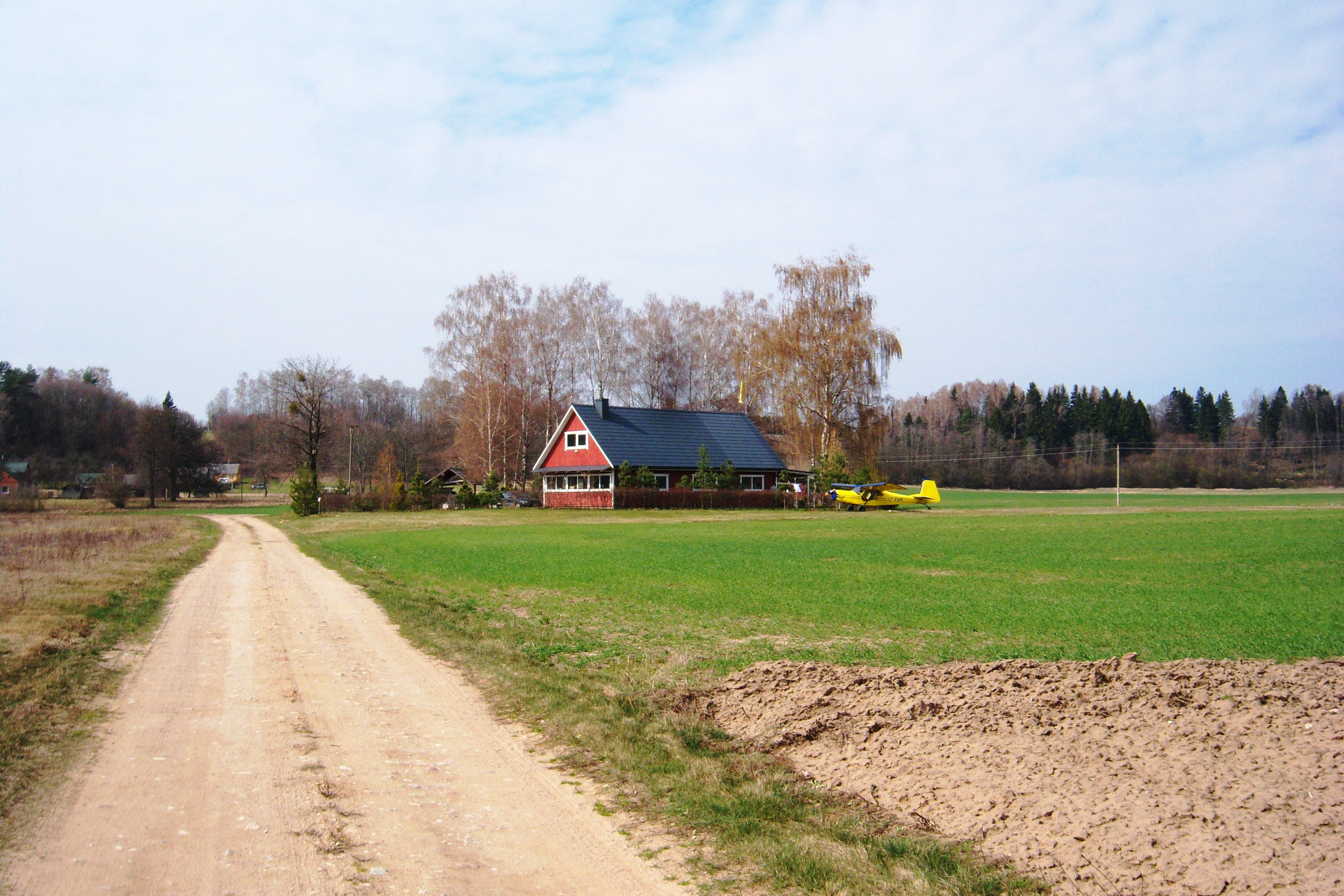 Pošventis, Prienai district, Lithuania